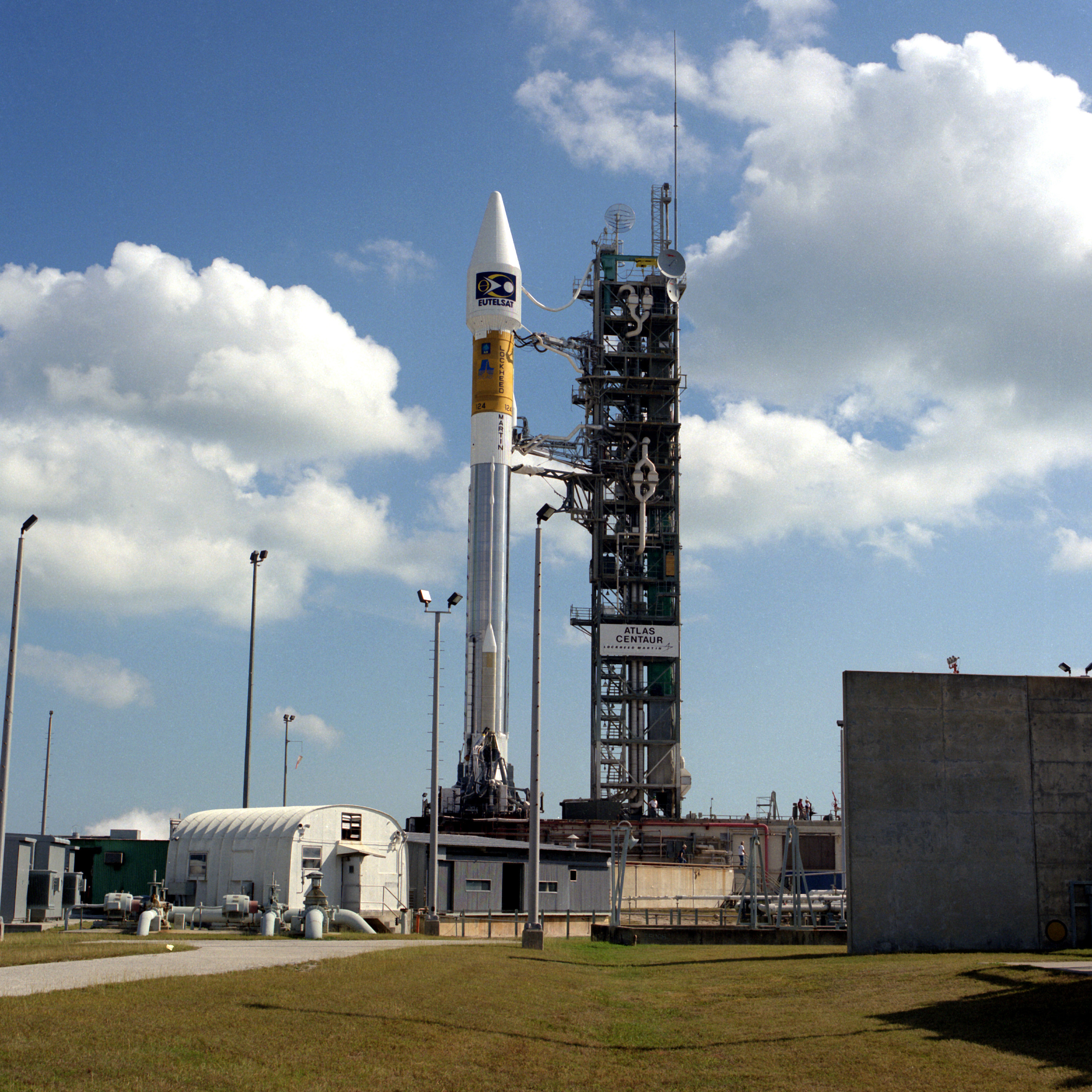 The United States Air Force and Lockheed Martin Astronautics Launch Teams are in final preparation to ready an ATLAS II Space Launch Vehicle to carry an Eutelsat Hot Bird 2 television satellite from Complex 36B. Liftoff is scheduled for 3:47 P.M. EST. today.